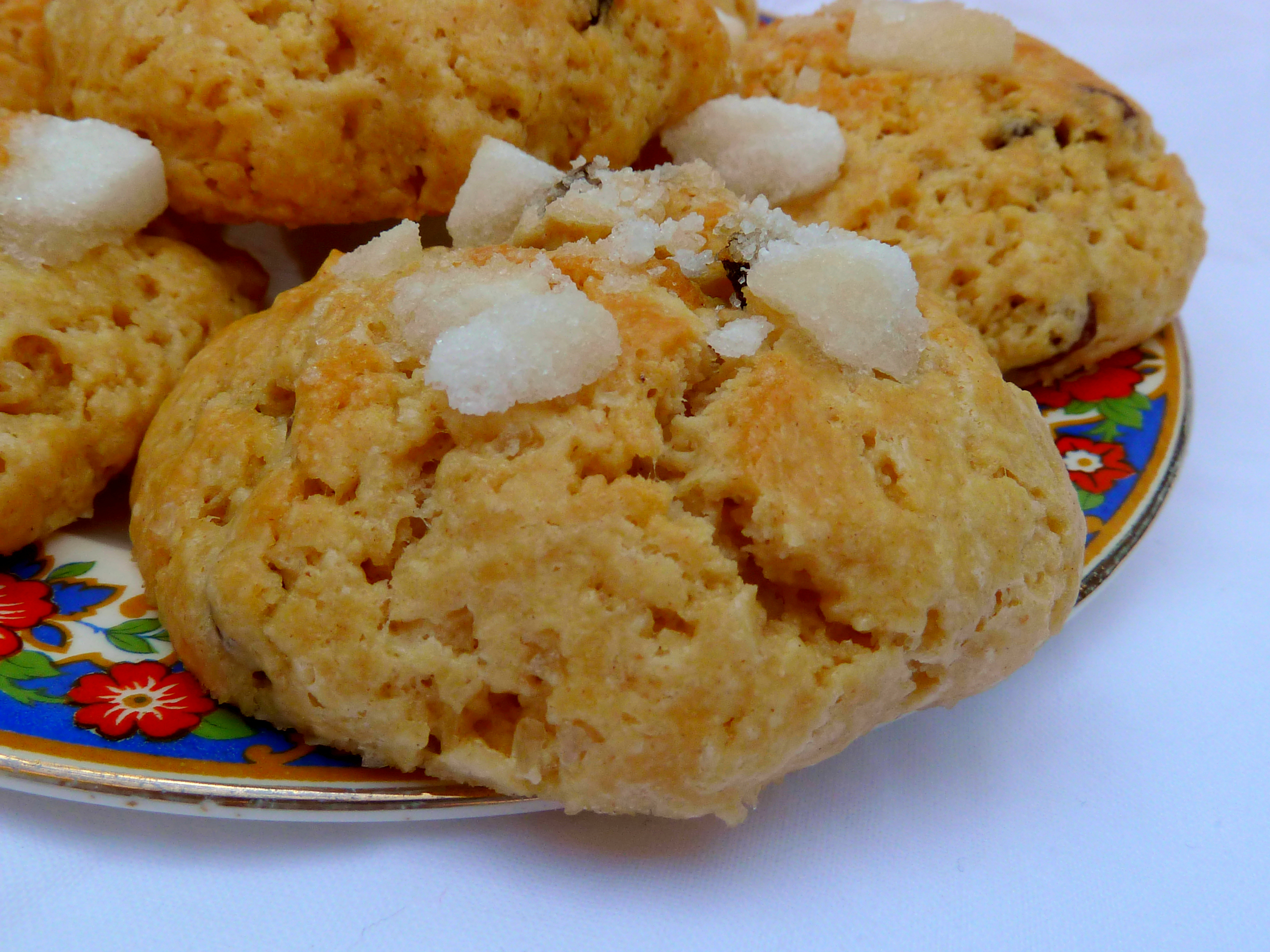 Paris buns, to an adjusted version of this recipe. These pictured buns were lightened by using a little less flour, adding the dried fruit before adding the liquid, and mixing in the liquid lightly with a knife. The sugar nibs were made by lightly crushing sugar lumps (they were originally made by lightly crushing part of a sugar loaf). The plate is Losol, made by Keeling of Burslem, England, in 1912–1936.